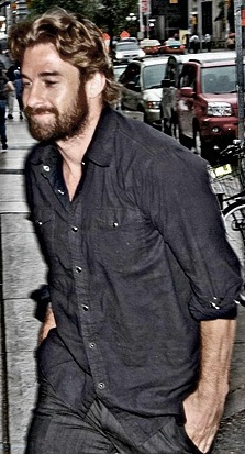 Scott Speedman at the 2008 Toronto International Film Festival